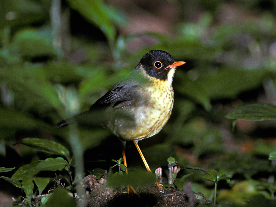 Gould's Nightingale-Thrush (Catharus dryas). Species of bird. Found in El Triunfo, Chiapas, Mexico